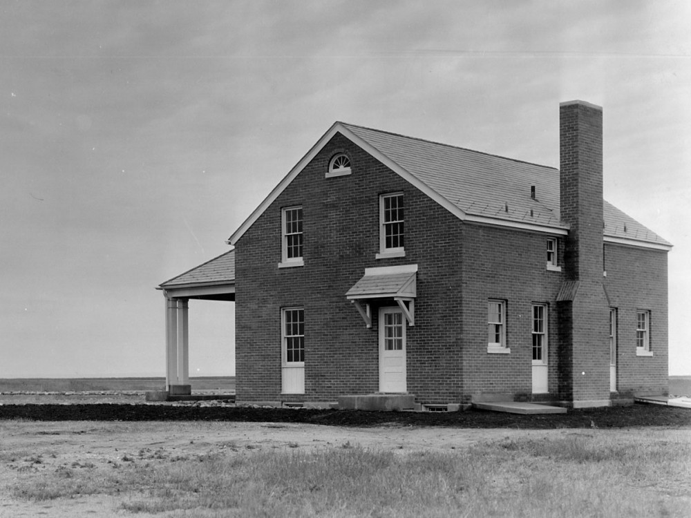 The US Border Inspection Station at Westhope, ND, shortly after its construction in 1937 Other information National Archives: Record Group 121-BS: Records of the Public Buildings Service: Completion views of federal buildings (prints) alphabetically by state and thereunder by city, to 1966; Box 67.